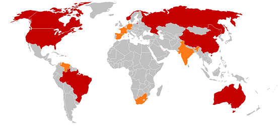 Ore production in the world